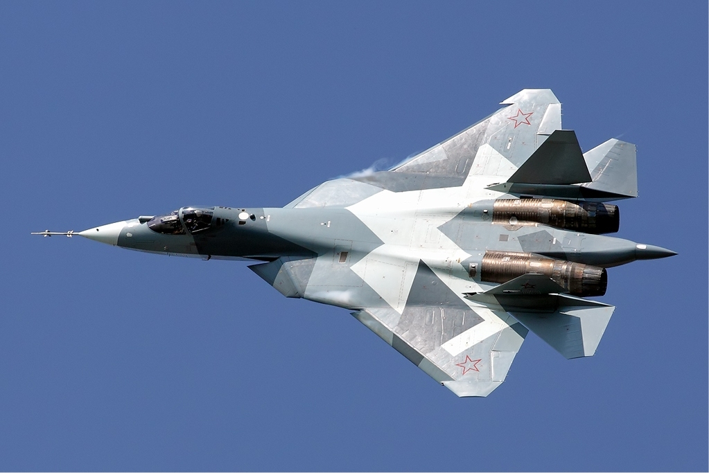 Sukhoi T-50, b/n 51.